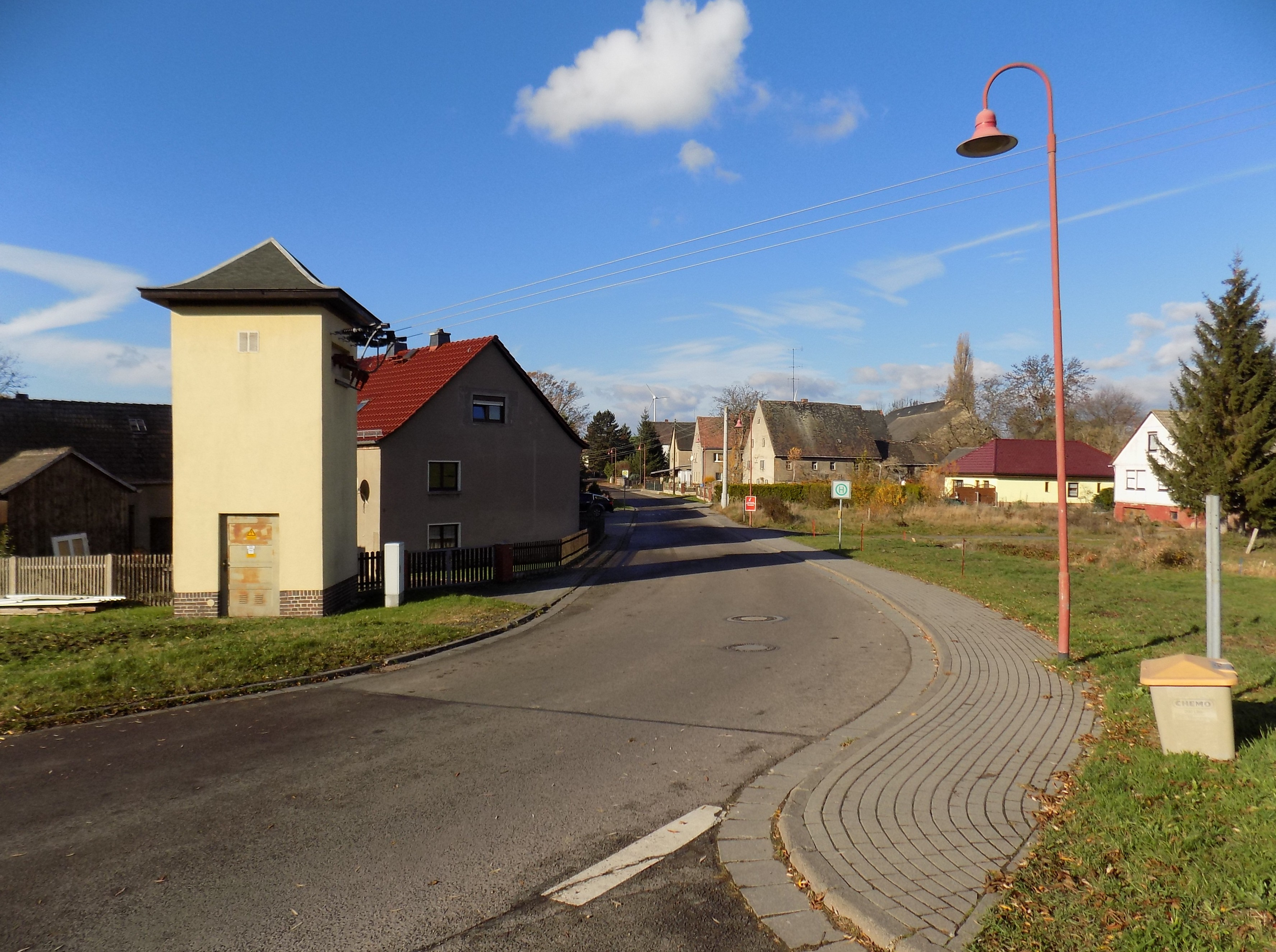 In Zeunitz (Grimma, Leipzig district, Saxony)